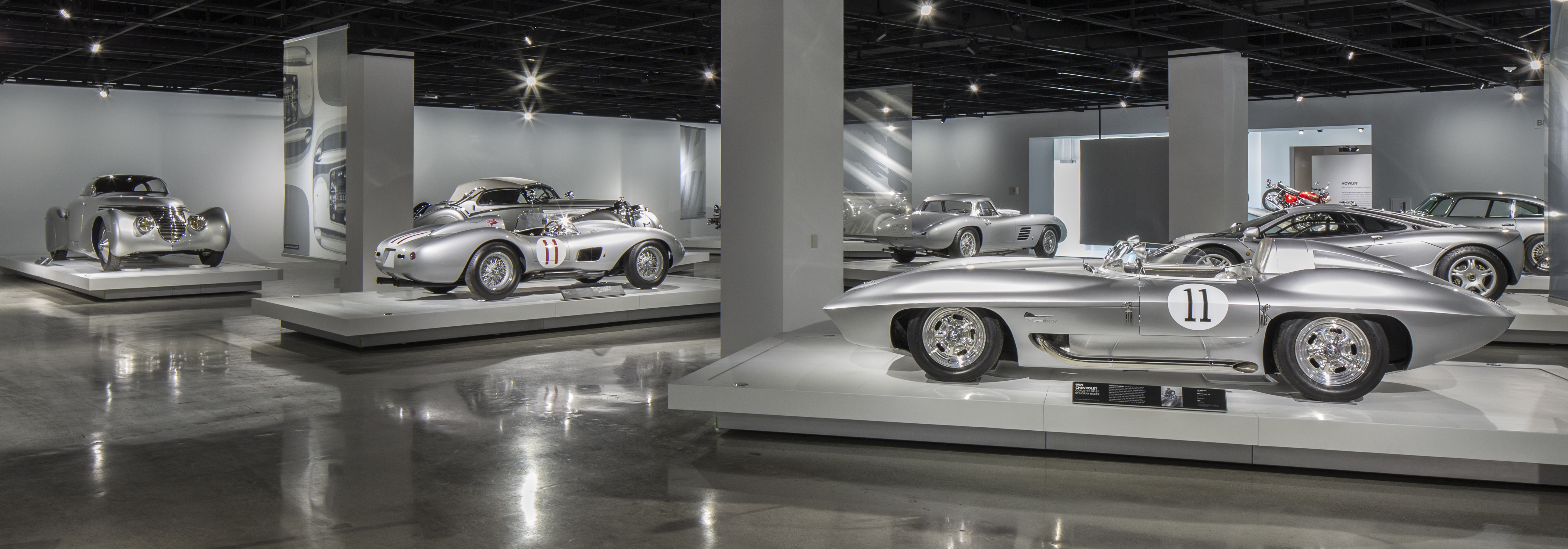 Photo by David Zaitz.